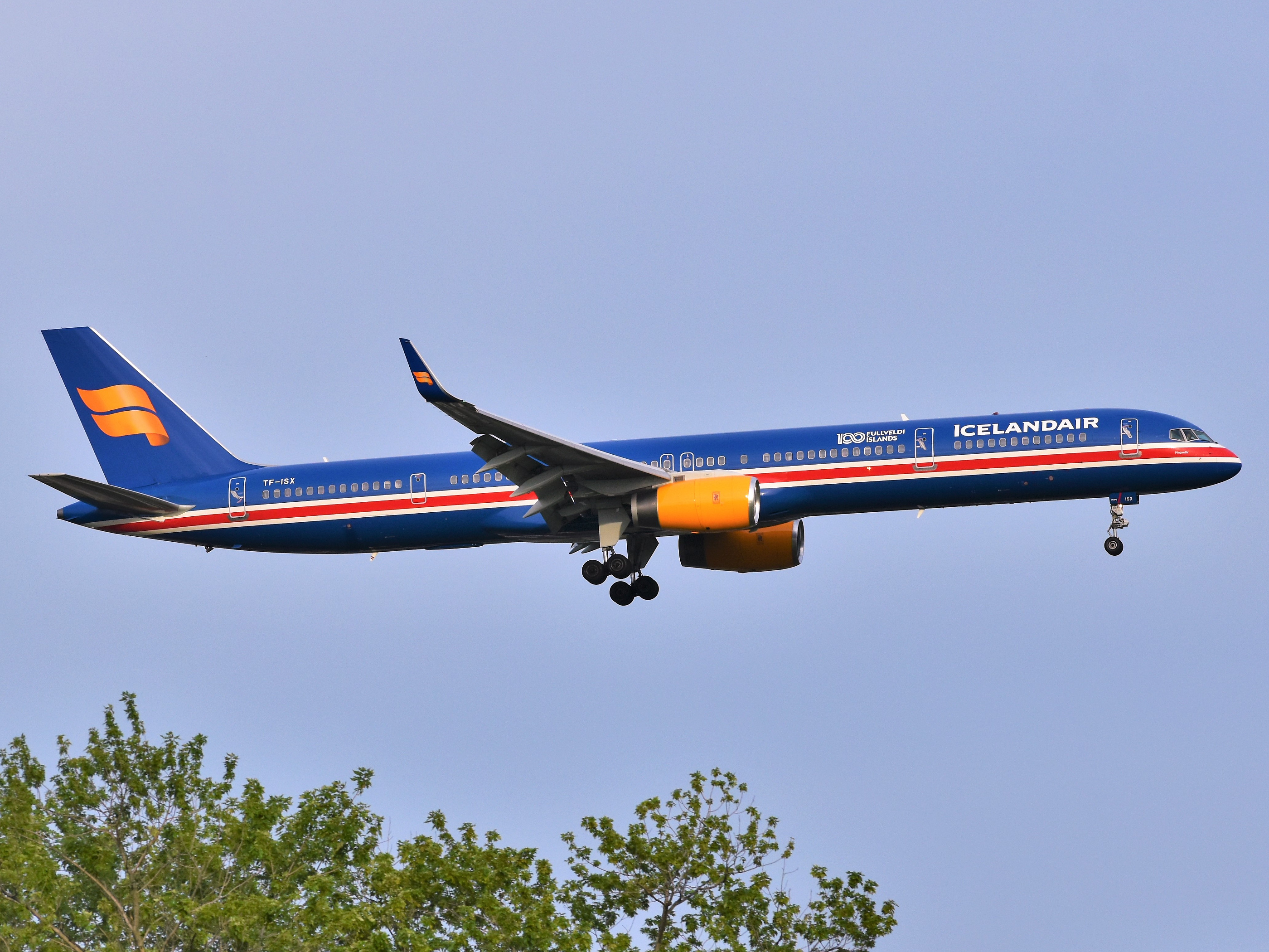 Painted in 100 Years of Independence livery, an Icelandair Boeing 757-300 is on final approach to John F. Kennedy International Airport on Flight FI615.